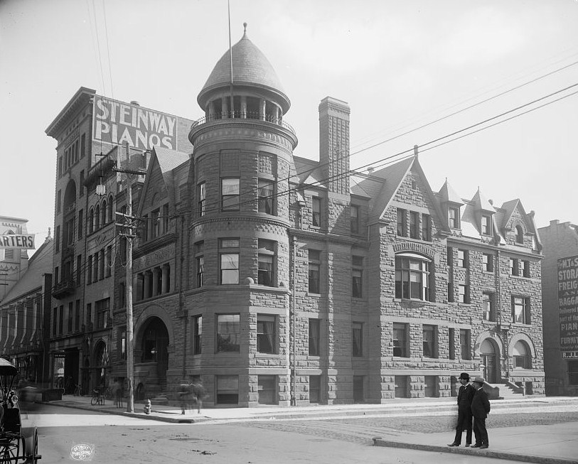 Toledo Club, Toledo (Lucas County, Ohio) cropped This work is from the Detroit Publishing Co. collection at the Library of Congress. According to the library, there are no known copyright restrictions on the use of this work. Most of the images in this collection were published before 1923 and are therefore in the public domain. A few images were published after this date and may be restricted by copyright. This image is available from the United States Library of Congress's Prints and Photographs division under the digital ID 4a05325. This tag does not indicate the copyright status of the attached work. A normal copyright tag is still required. See Commons:Licensing for more information. Object location41° 39′ 20″ N, 83° 32′ 40″ W